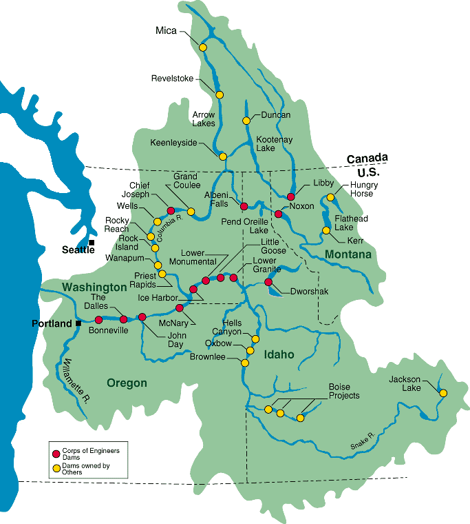 Maps of dams, drainage and estuaries along the Columbia River in North America (USA, Canada). Original caption: The Columbia River carved the Interior Columbia River Basin from the landscape of seven Western states and two Canadian provinces. The river itself flows from its headwaters in British Columbia, Canada through only two states, forming part of the Washington-Oregon border, the vast Interior Columbia River Basin is defined by the area drained by the river and its many tributaries. This 58-million-hectare area (about the size of France) extends roughly from the crest of the Cascade Mountains of Oregon and Washington east through Idaho to the Continental Divide in the Rocky Mountains of Montana and Wyoming, and from the headwaters of the Columbia River in Canada to the high desert of northern Nevada and northwestern Utah.